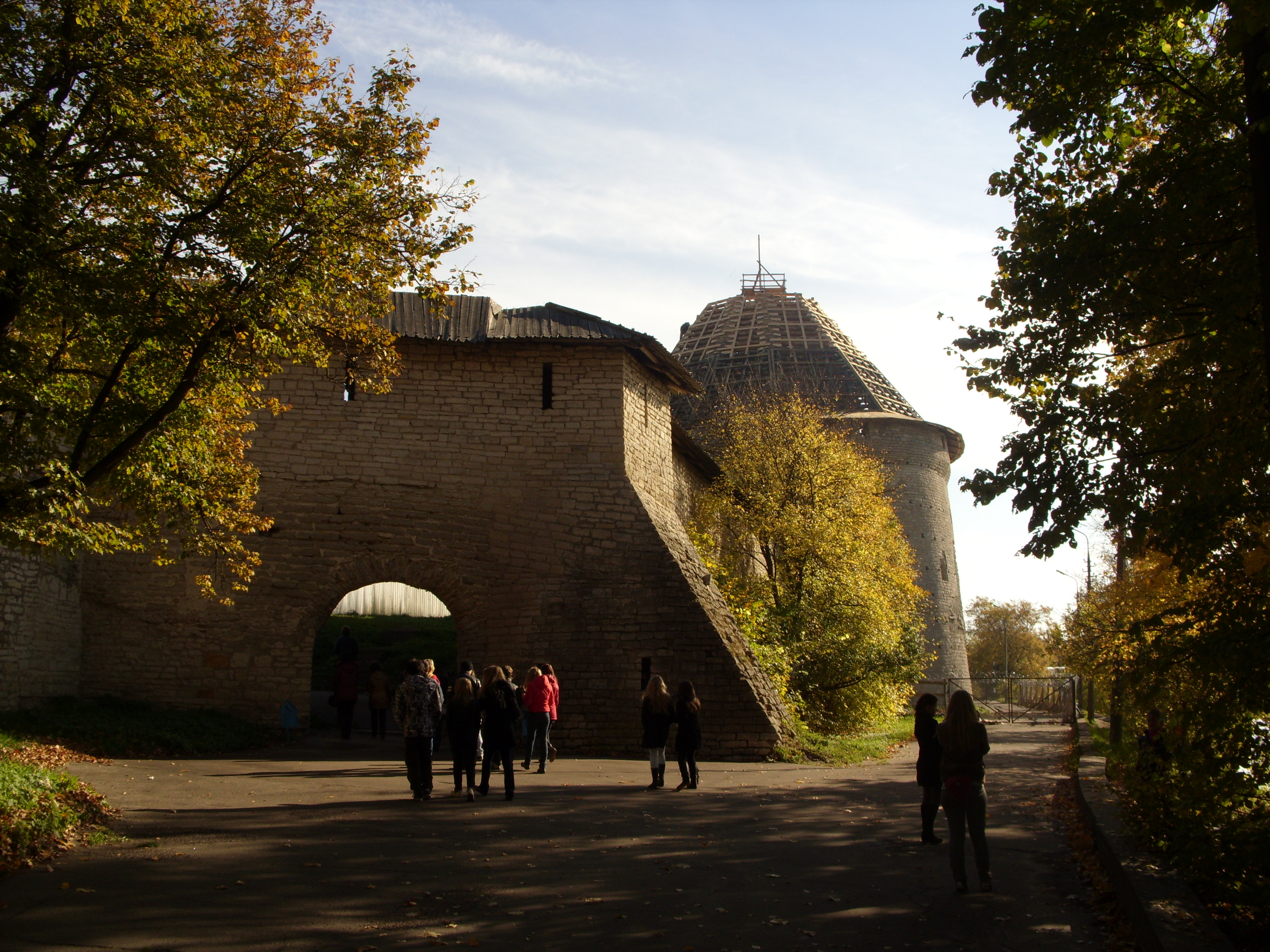 Pokrovskaja_bashnja_okt2010-1